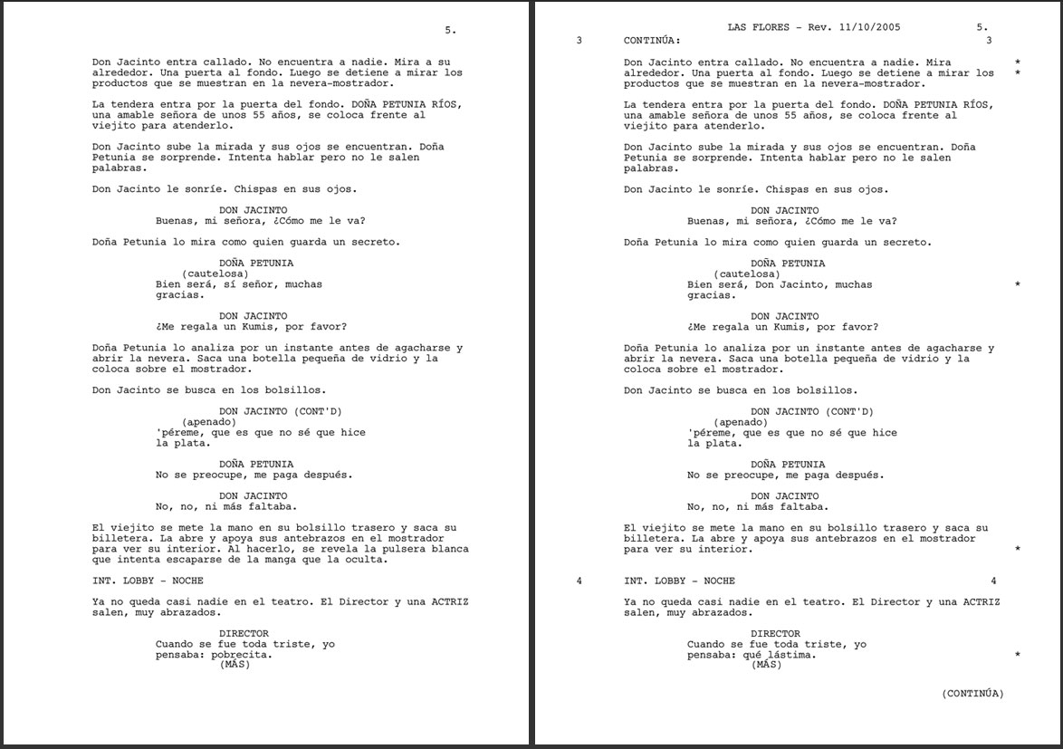 A spec screenplay vs a production screenplay.